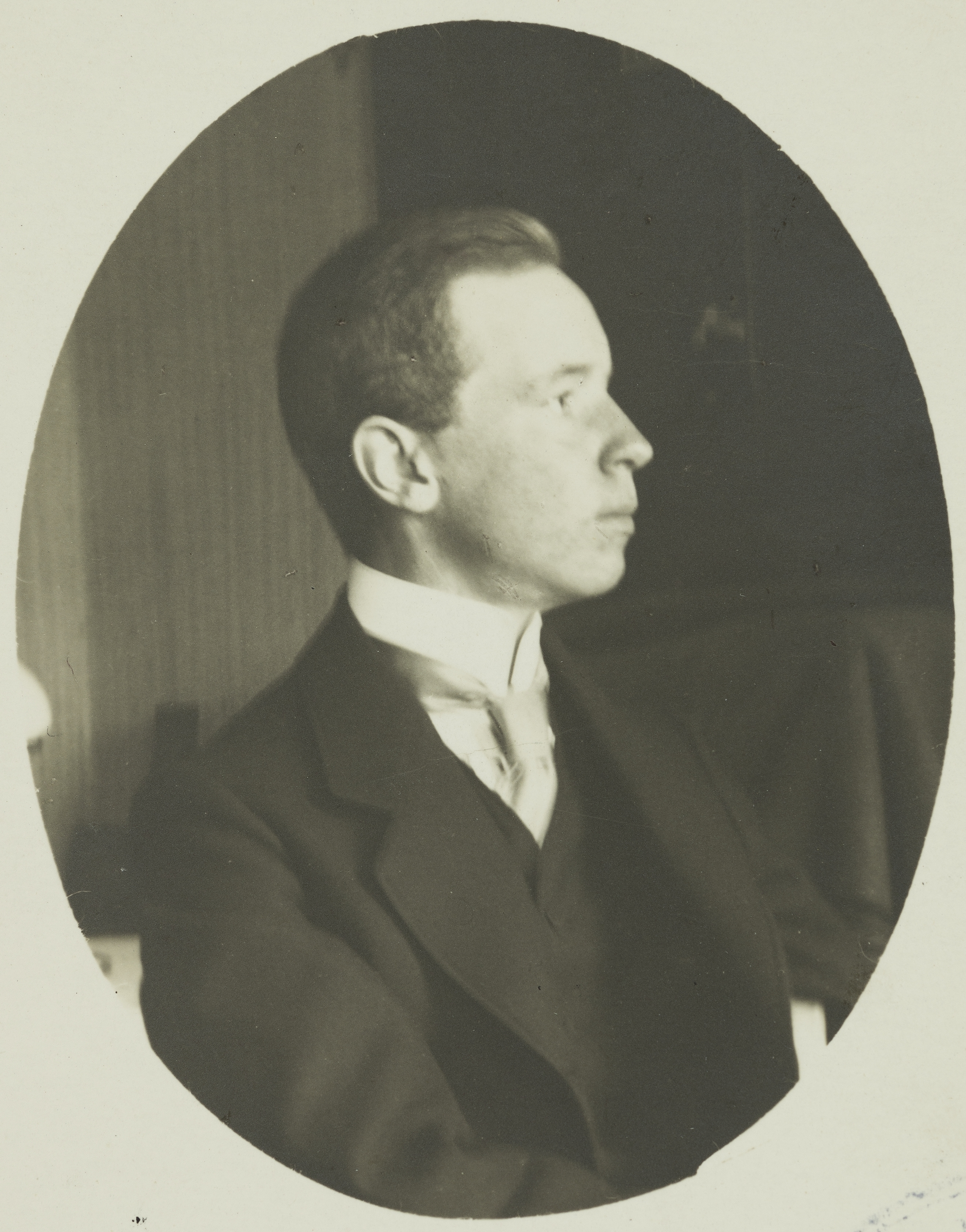 Photograph of the Finnish landscape architect Bengt Schalin (1889–1982).